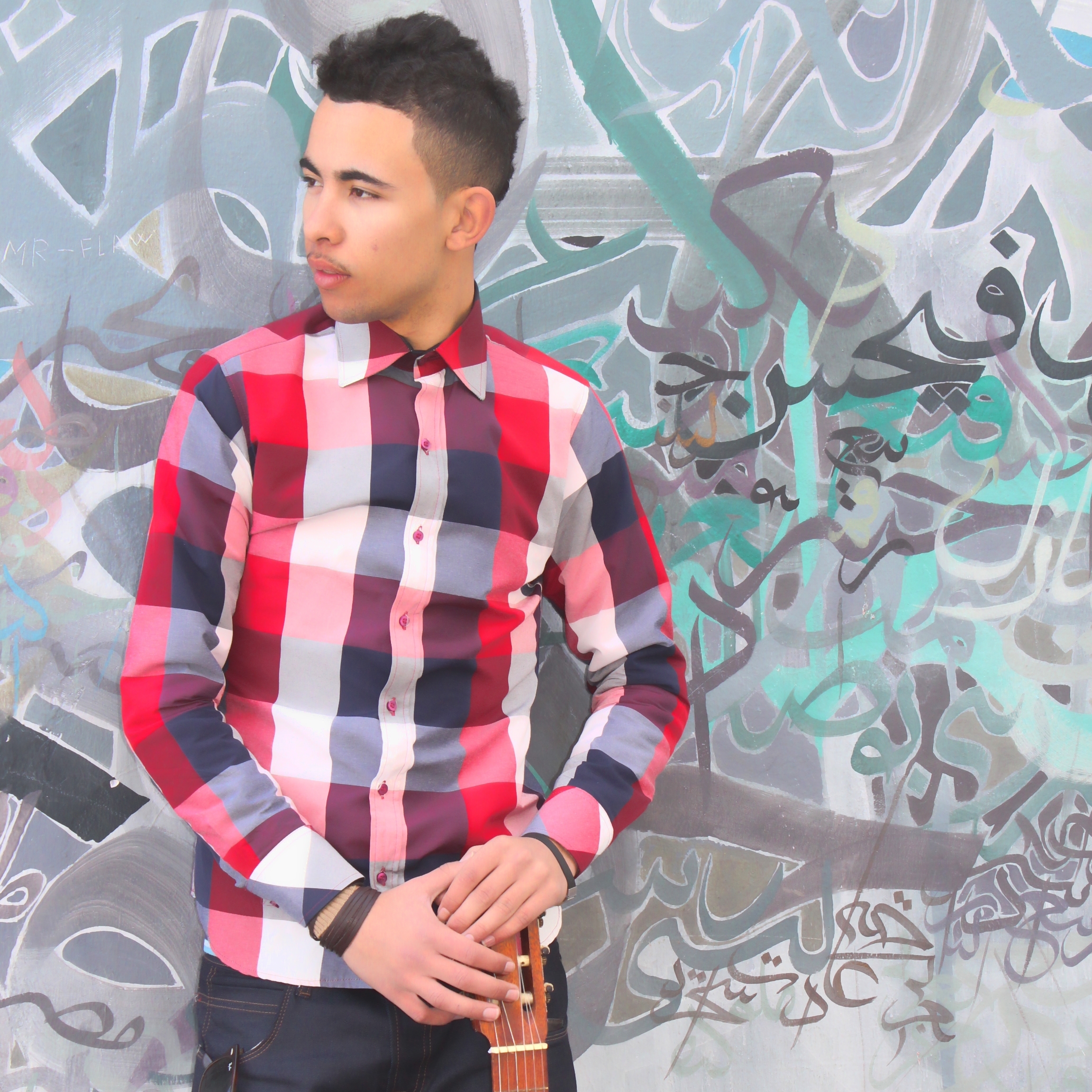 Ryan Belhsen on the Making of his second Music Video Khallini Nebghik in Assilah